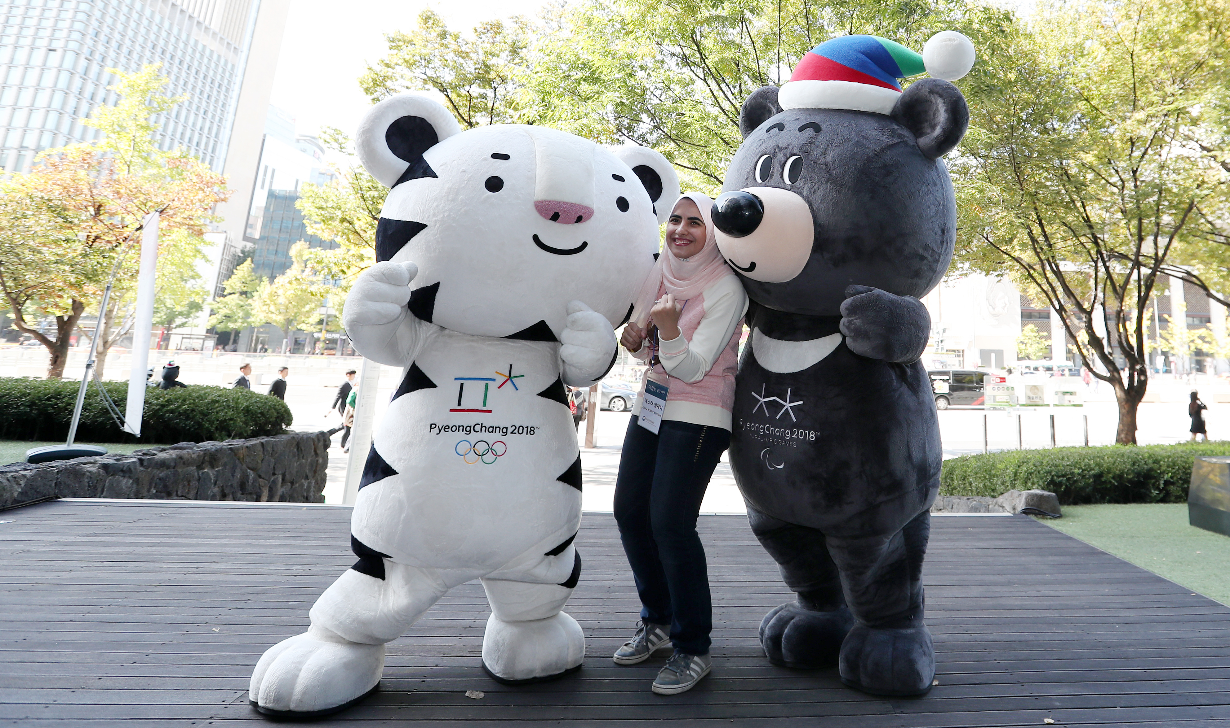 Honorary Reporters Tour in Seoul October 24. 2016 Seoul Ministry of Culture, Sports and Tourism Korean Culture and Information Service ( Official Photographer : Jeon Han This official Republic of Korea photograph is being made available only for publication by news organizations and/or for personal printing by the subject(s) of the photograph. The photograph may not be manipulated in any way. Also, it may not be used in any type of commercial, advertisement, product or promotion that in any way suggests approval or endorsement from the government of the Republic of Korea. 코리아넷 명예기자단 한국탐방 2016-10-24 서울 문화체육관광부 해외문화홍보원 코리아넷 전한